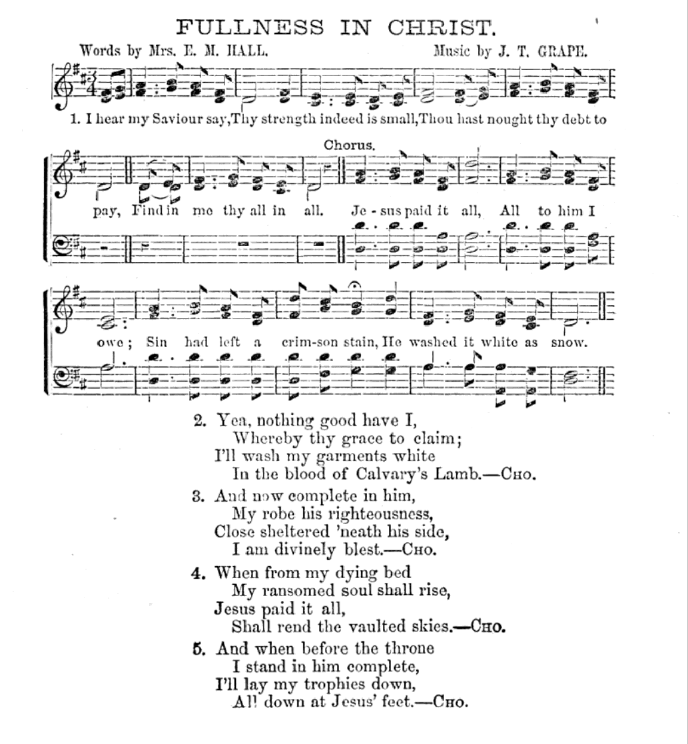 Jesus Paid It All also known as Fullness in Christ by Elvina M. Hall and John Grape published in Sabbath Carols: A New Collection of Music and Hymns (1868), p. 93 (accessible on Google Books)